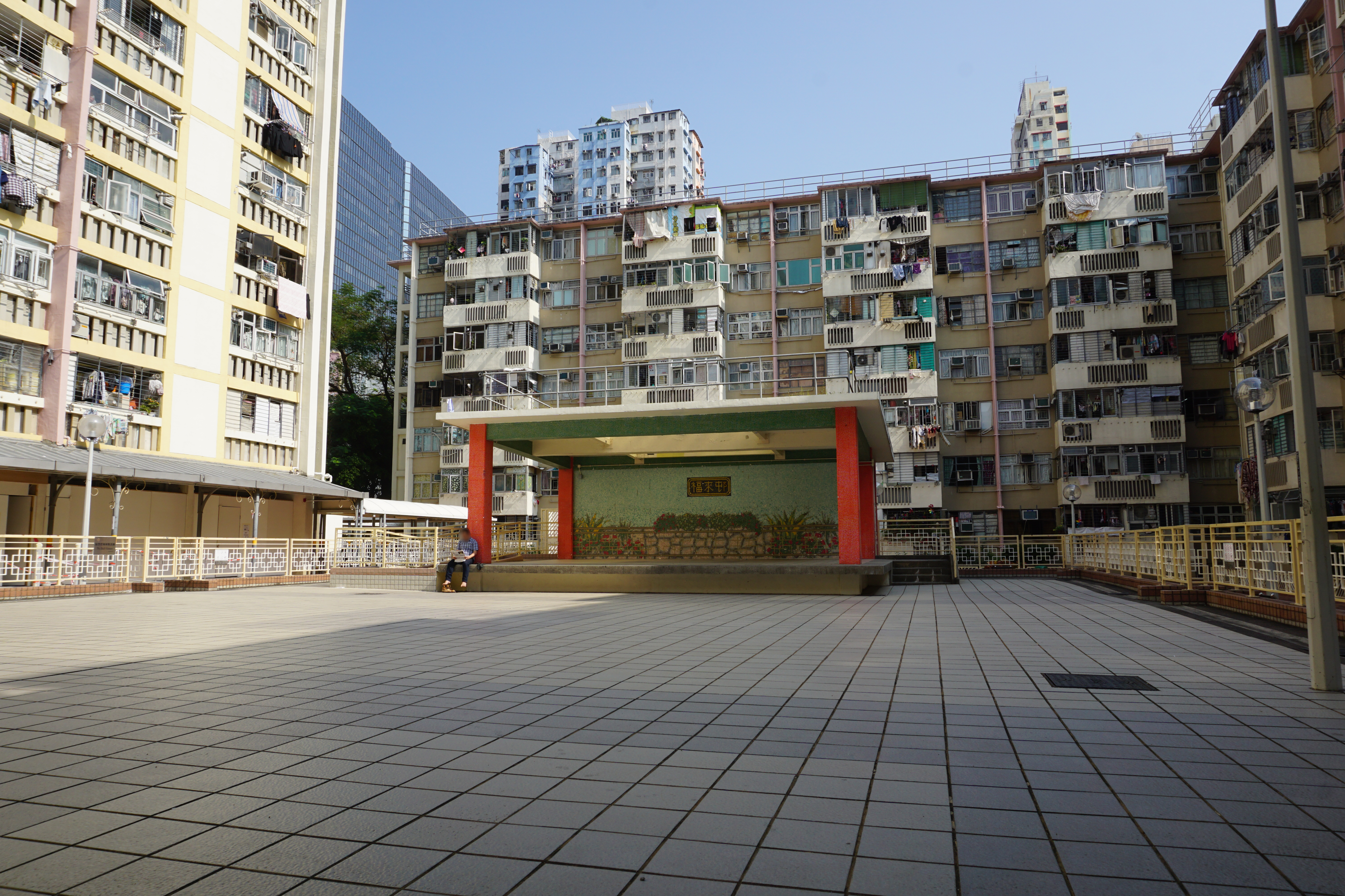 Fuk Loi Estate in Tsuen Wan, Hong Kong.